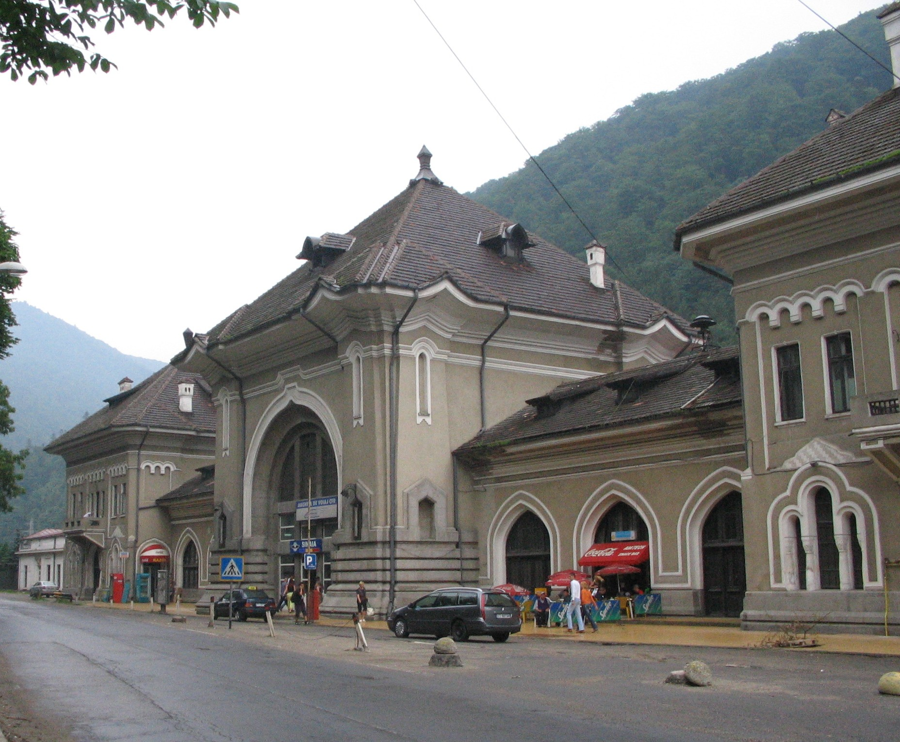 Sinaia railway station